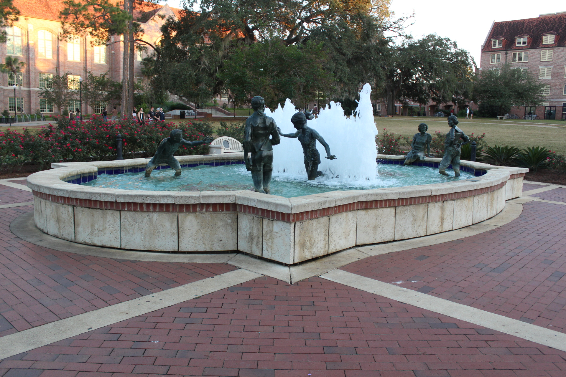 Popular fountain on the Florida State University Tallahassee campus.